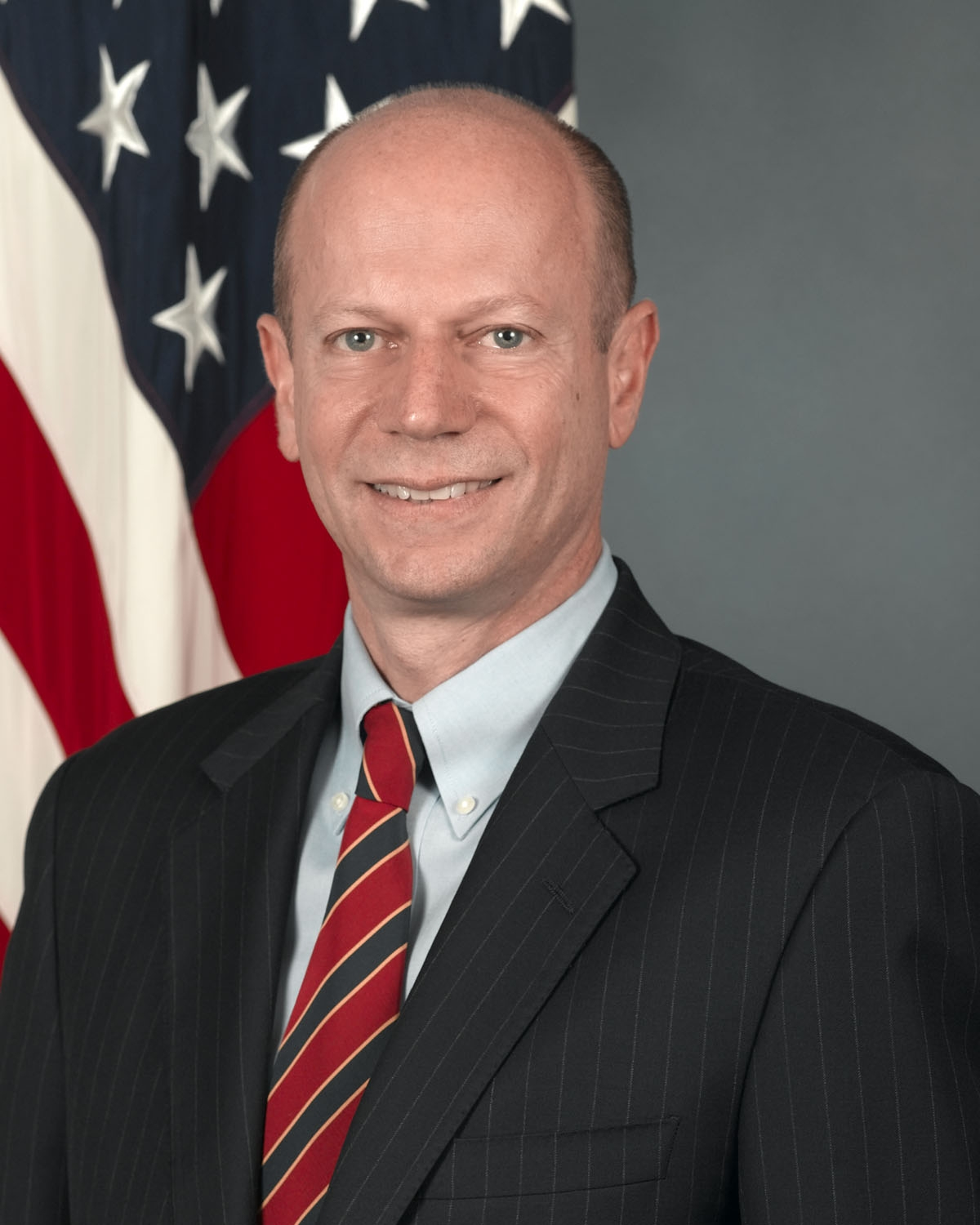 Official photo of Assistant Secretary, Andrew Weber